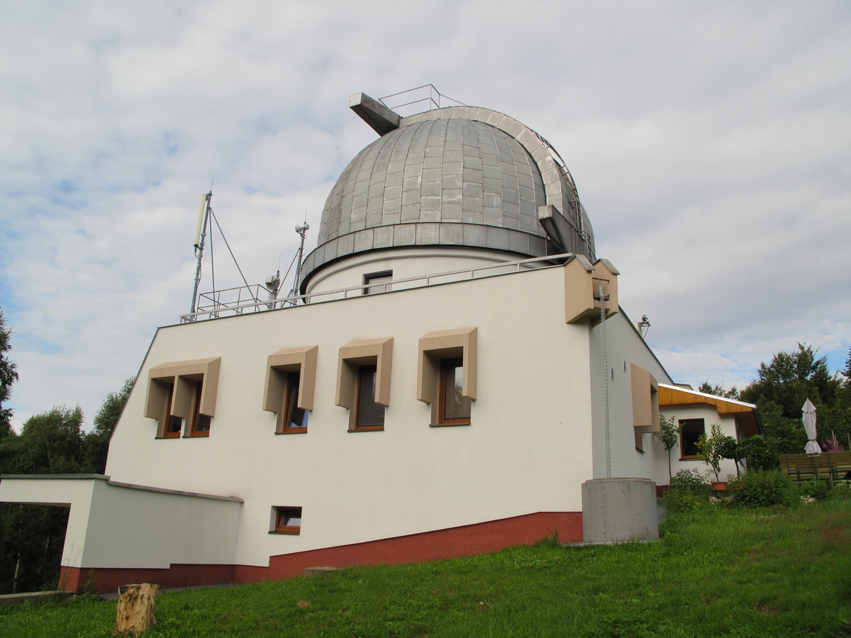 The main, administrative and operation building of the Modra observatory. The dome contains 0.6-m telescope and 0.2-m solar telescope.